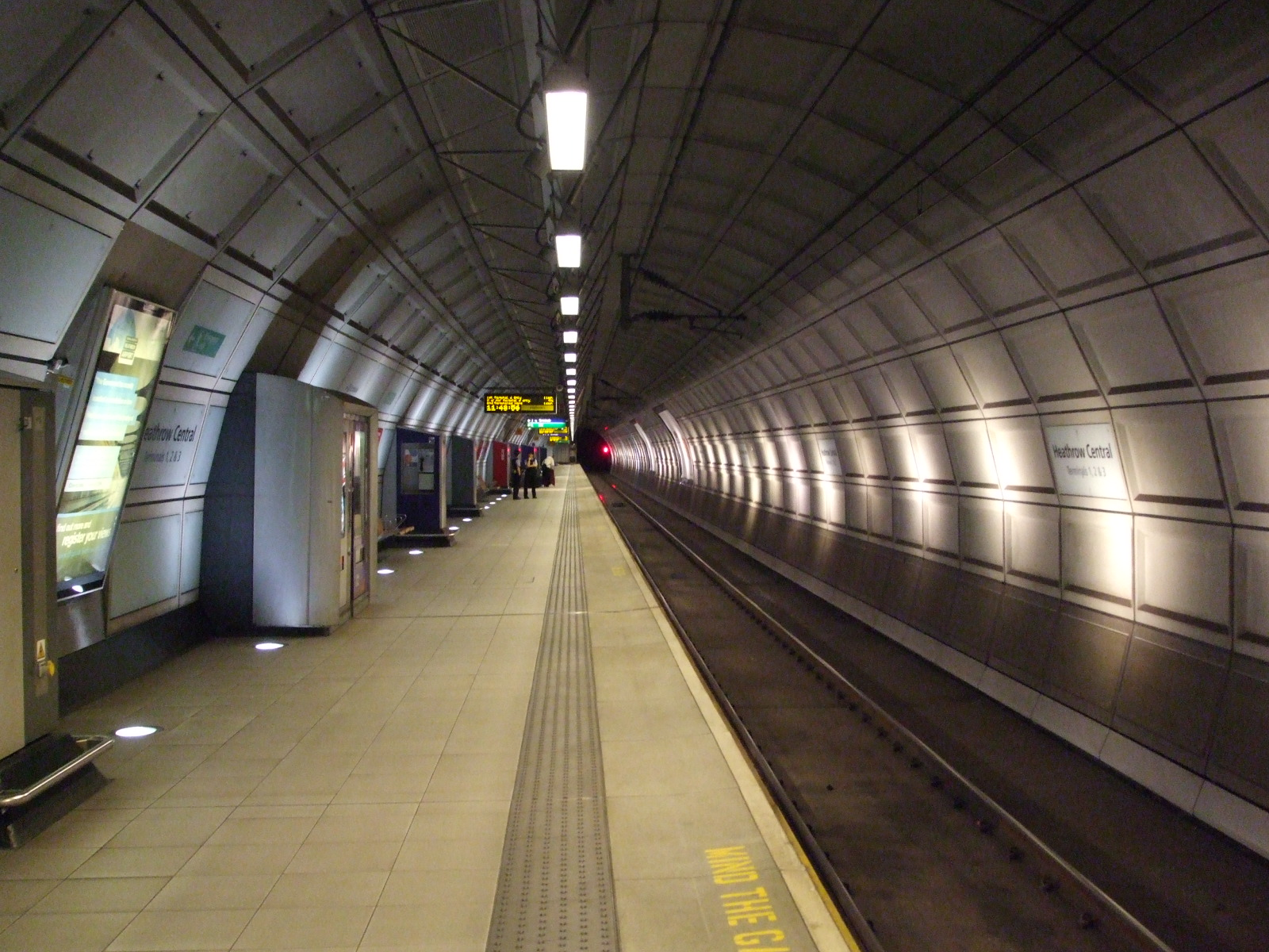 Heathrow Central railway station looking towards London